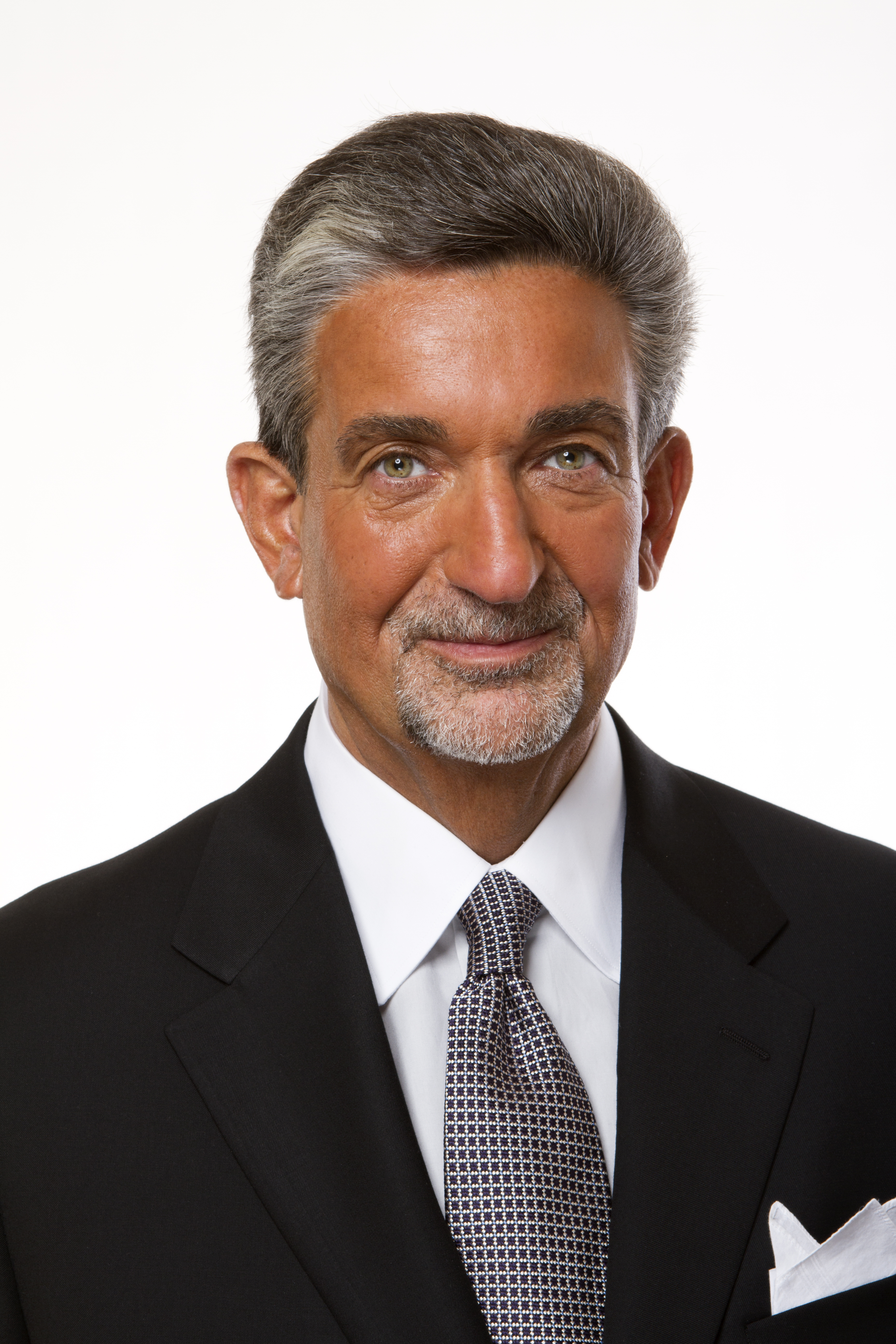 Ted Leonsis, October 2013